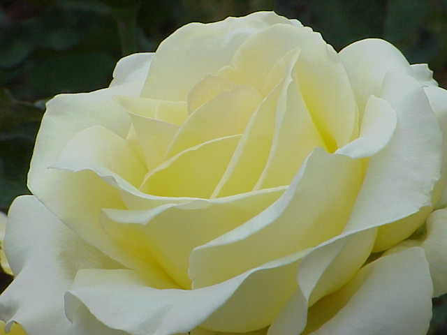 Species: Rosa sp. Family: Rosaceae Cultivar: Elina, Dickson 1984 Image No. 91